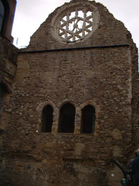 Winchester Palace, Southwark, London. Taken by C Ford, November 03.